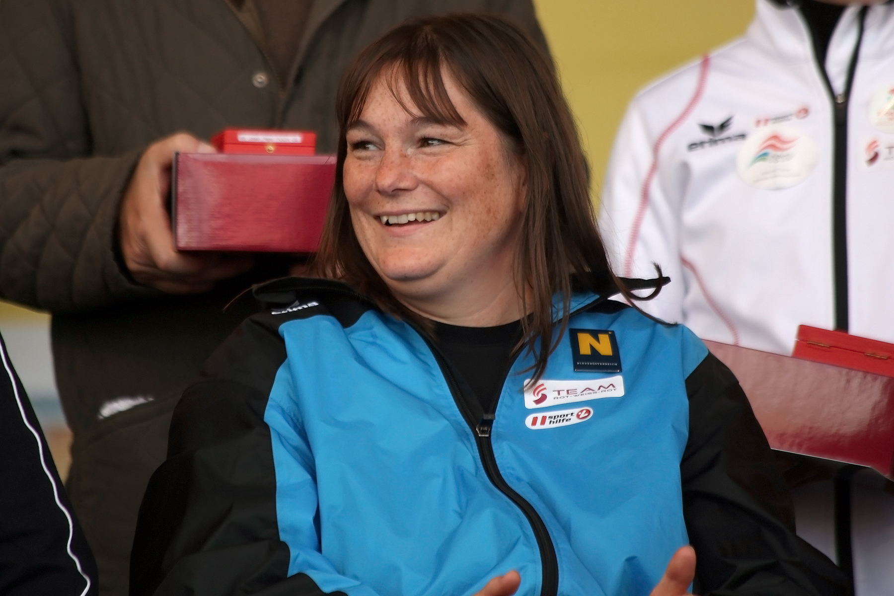 Doris Mader at the Tag des Sports (Day of Sports) 2013 on Heldenplatz in Vienna, Austria.